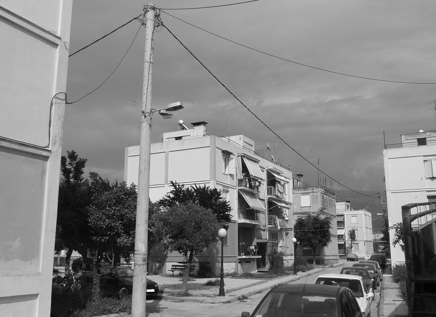 Aspect of labour houses architecture in '50s-'60s Greece.